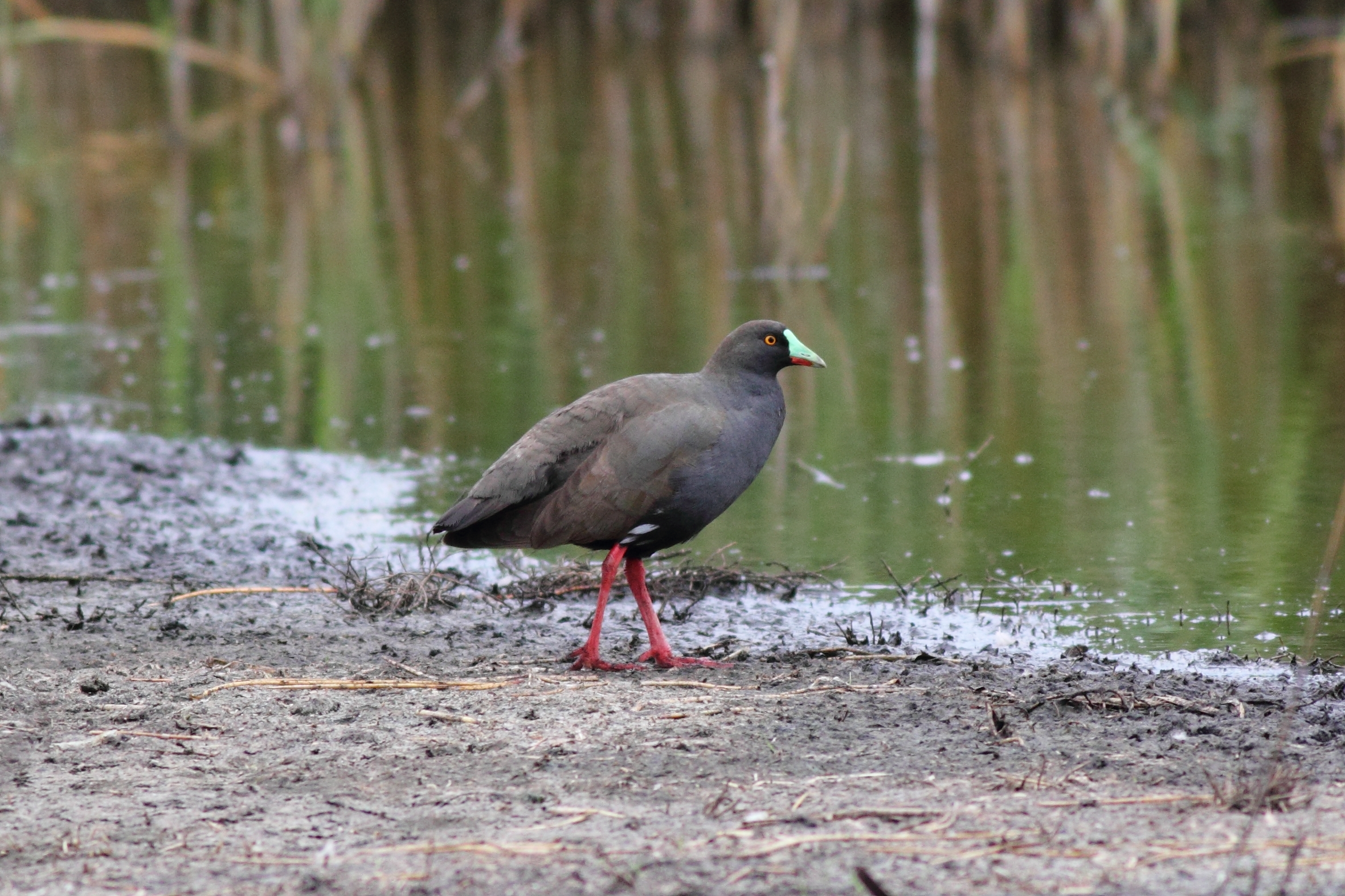 Black-tailed Nativehen Tribonyx ventralis at Edithvale Wetlands, Victoria, Australia